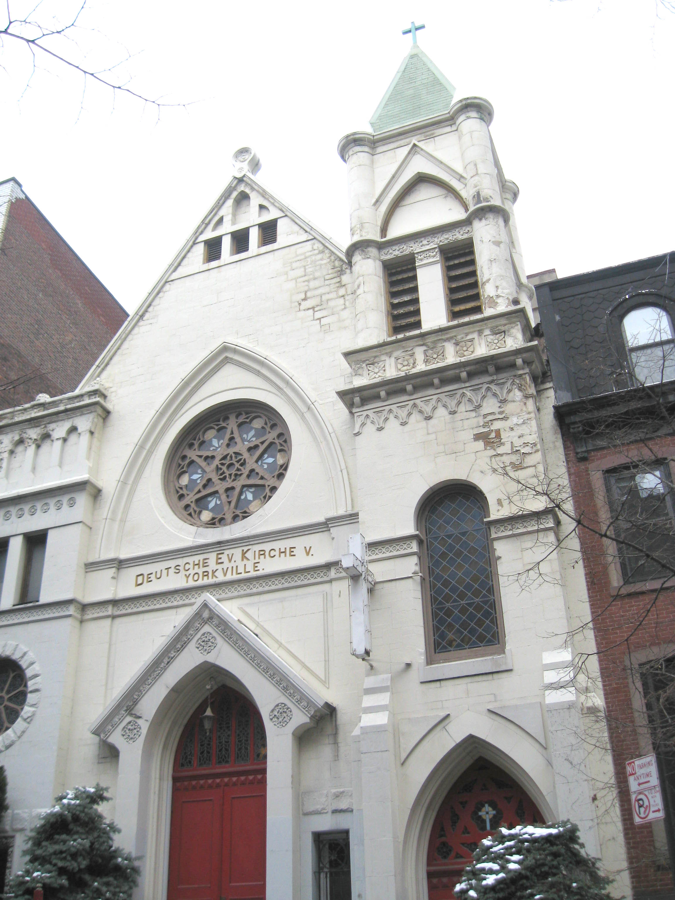 Looking north at Zion-St Mark's German Evangelical Church, 339 East 84th Street, on a cloudy midday. Official site is here.